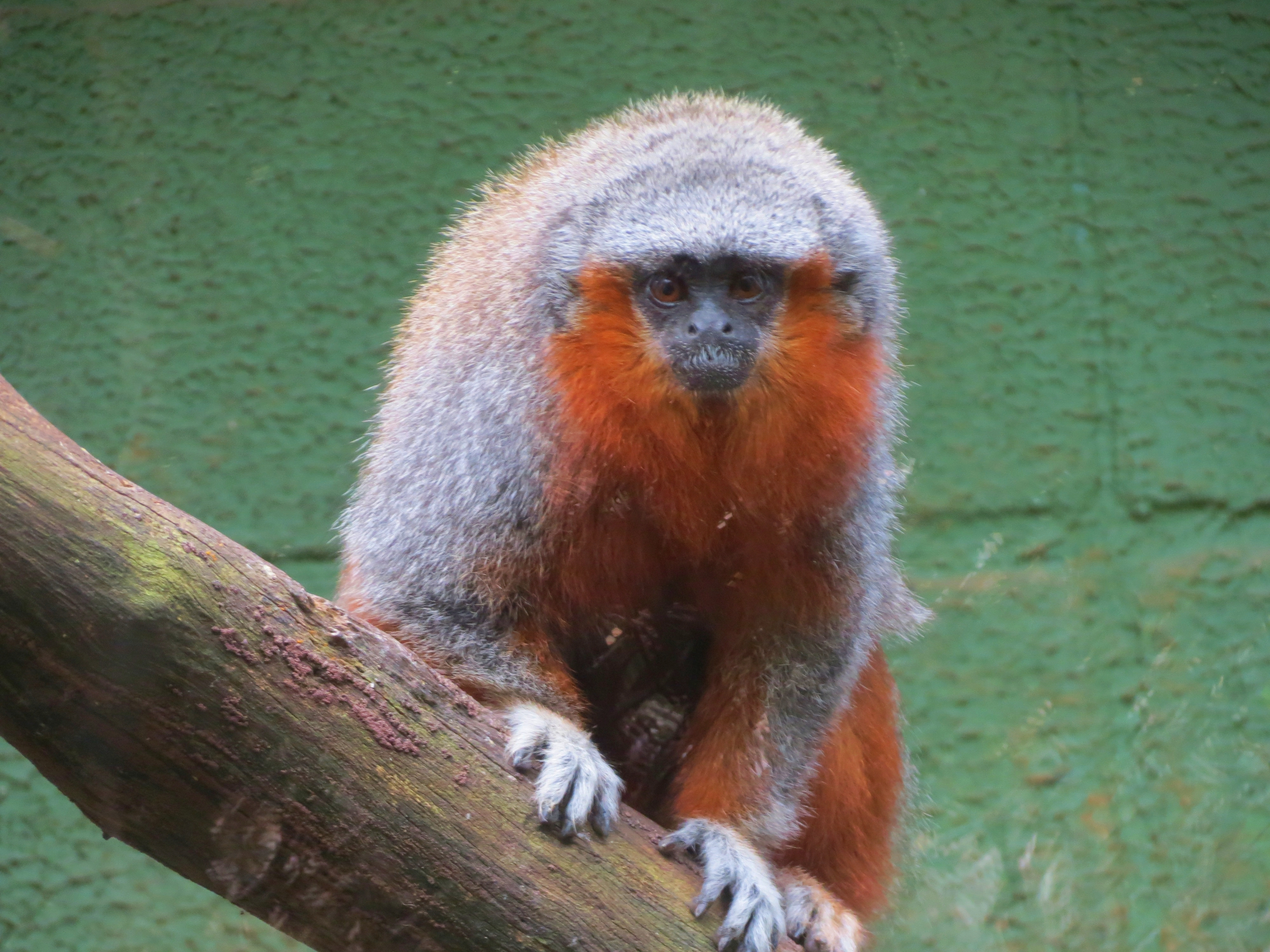 Prince Bernhardi's titi (Callicebus bernhardi), Comment: this is Plecturocebus grovesi. See: Jean P.Boubli et al.: On a new species of titi monkey (Primates: Plecturocebus Byrne et al., 2016), from Alta Floresta, southern Amazon, Brazil. Molecular Phylogenetics and Evolution, November 2018, and Russell A. Mittermeier, Anthony B. Rylands & Don E. Wilson: Handbook of the Mammals of the World: Primates: 3. ISBN 978-8496553897, Page 466, Plate 29.